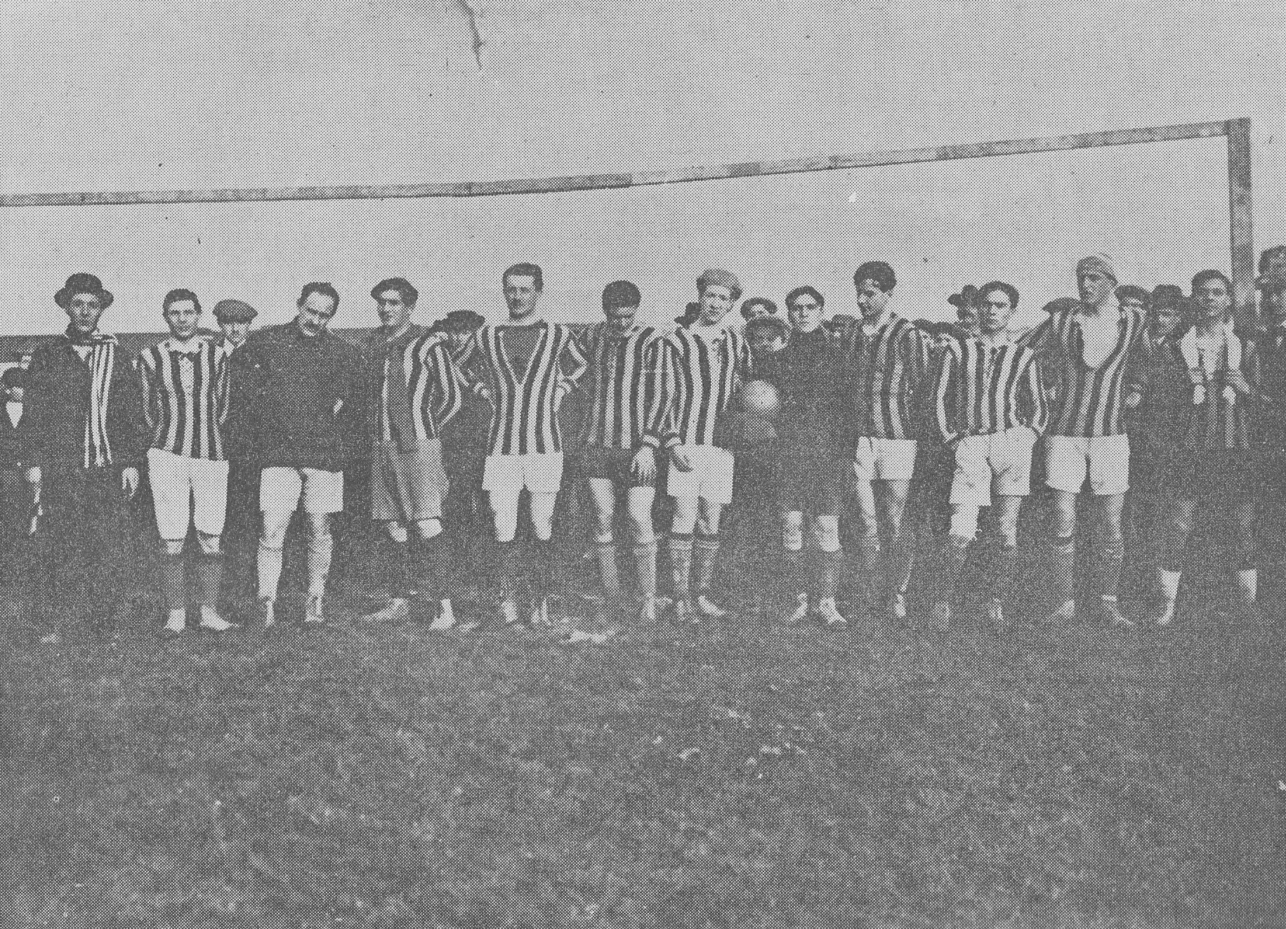 Pisa Football Club during a tournament in 1911.